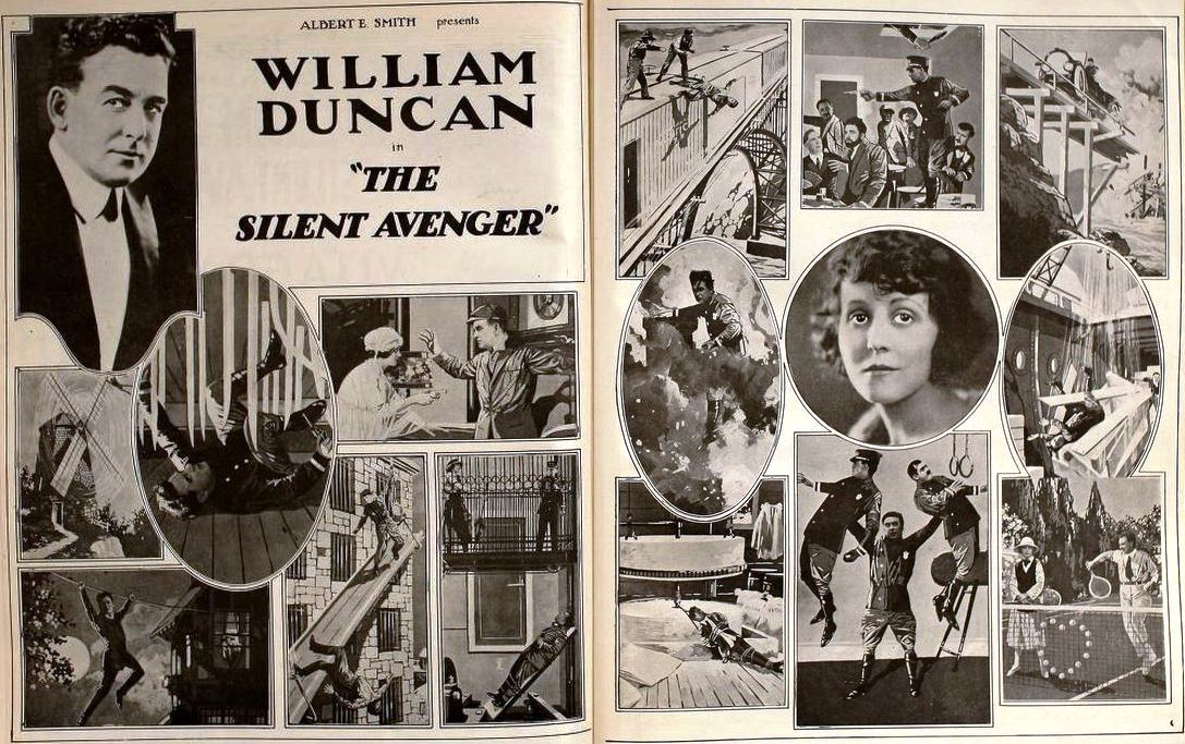 Advertisement for the American film serial The Silent Avenger (1920) with William Duncan and Edith Johnson, on pages 3044 and 3045 of the April 3, 1920 Motion Picture News.